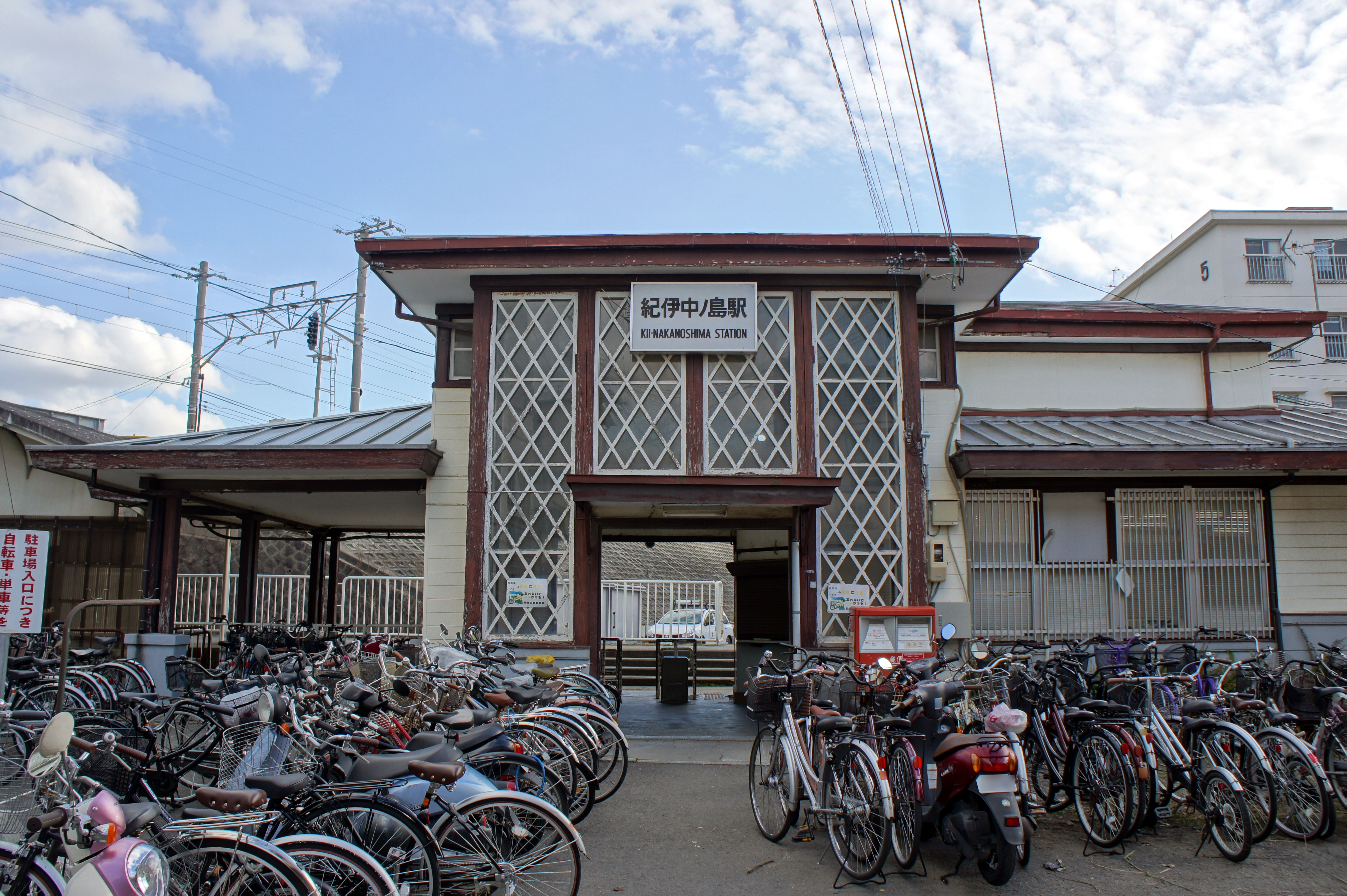 Kii-Nakanoshima Station (Wakayama, Wakayama Prefecture, Japan)